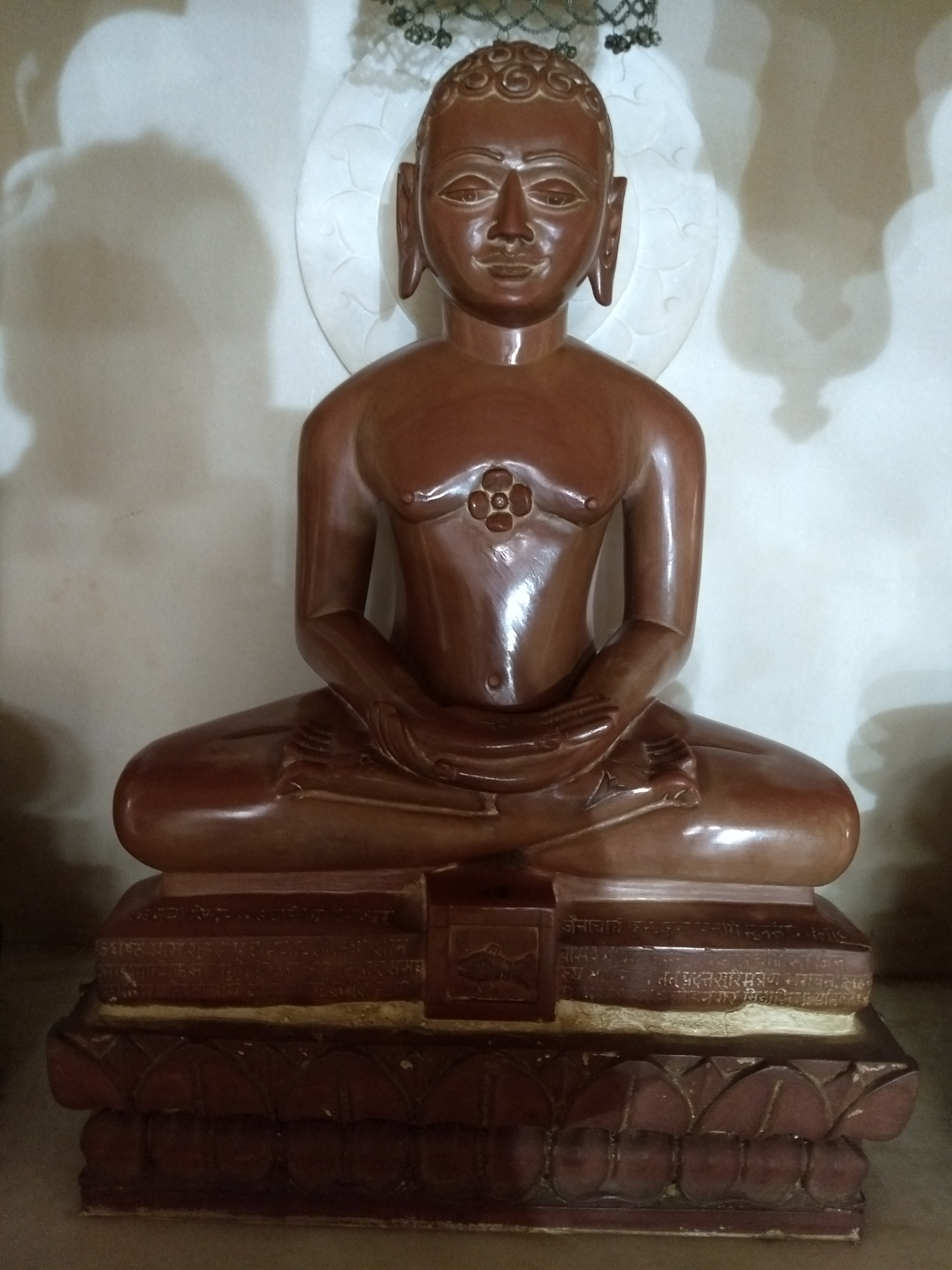 Jain statues in Anwa, Rajasthan